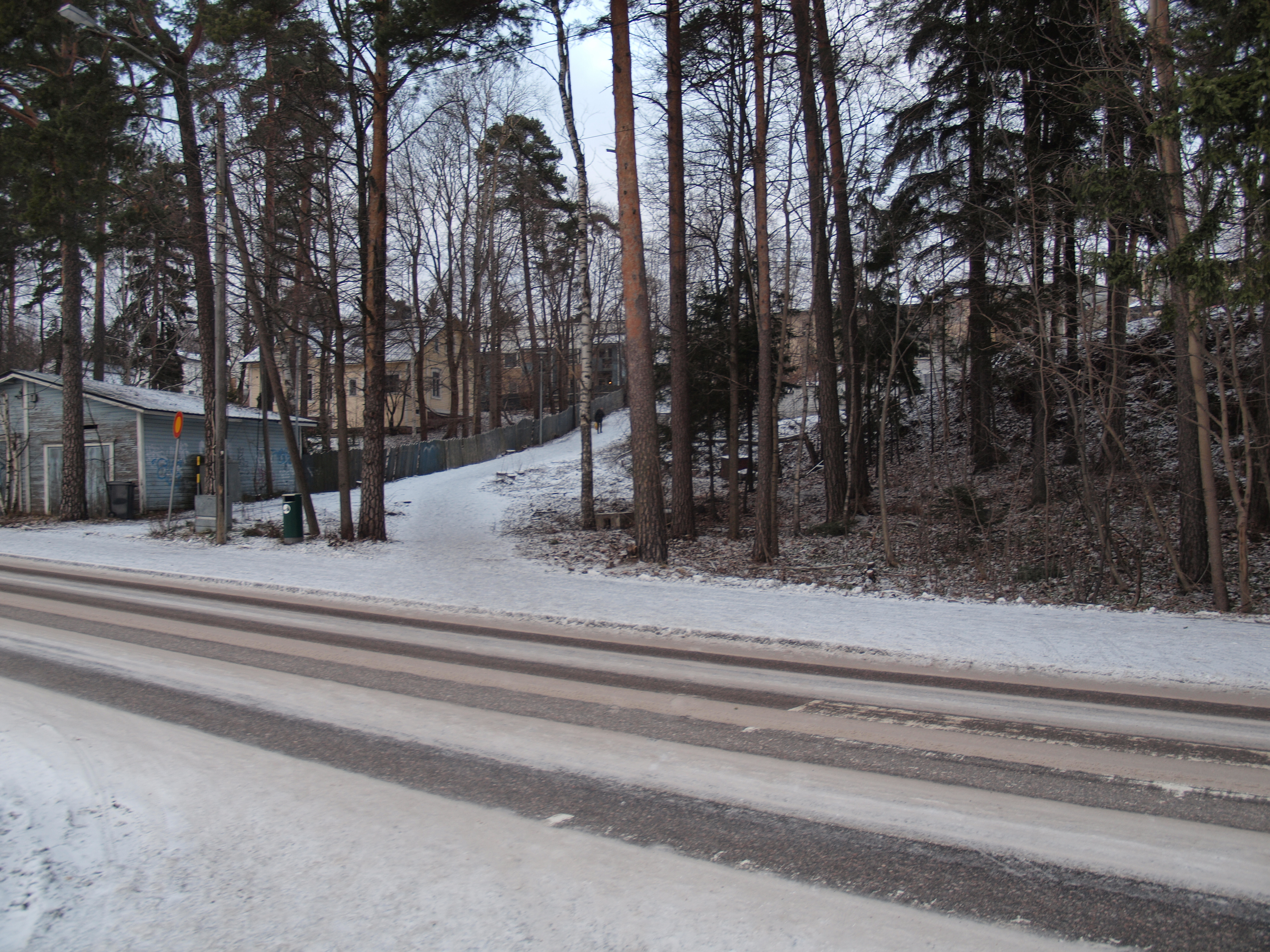 Wooden houses and forest in Kilo, Espoo, Finland, at wintertime.